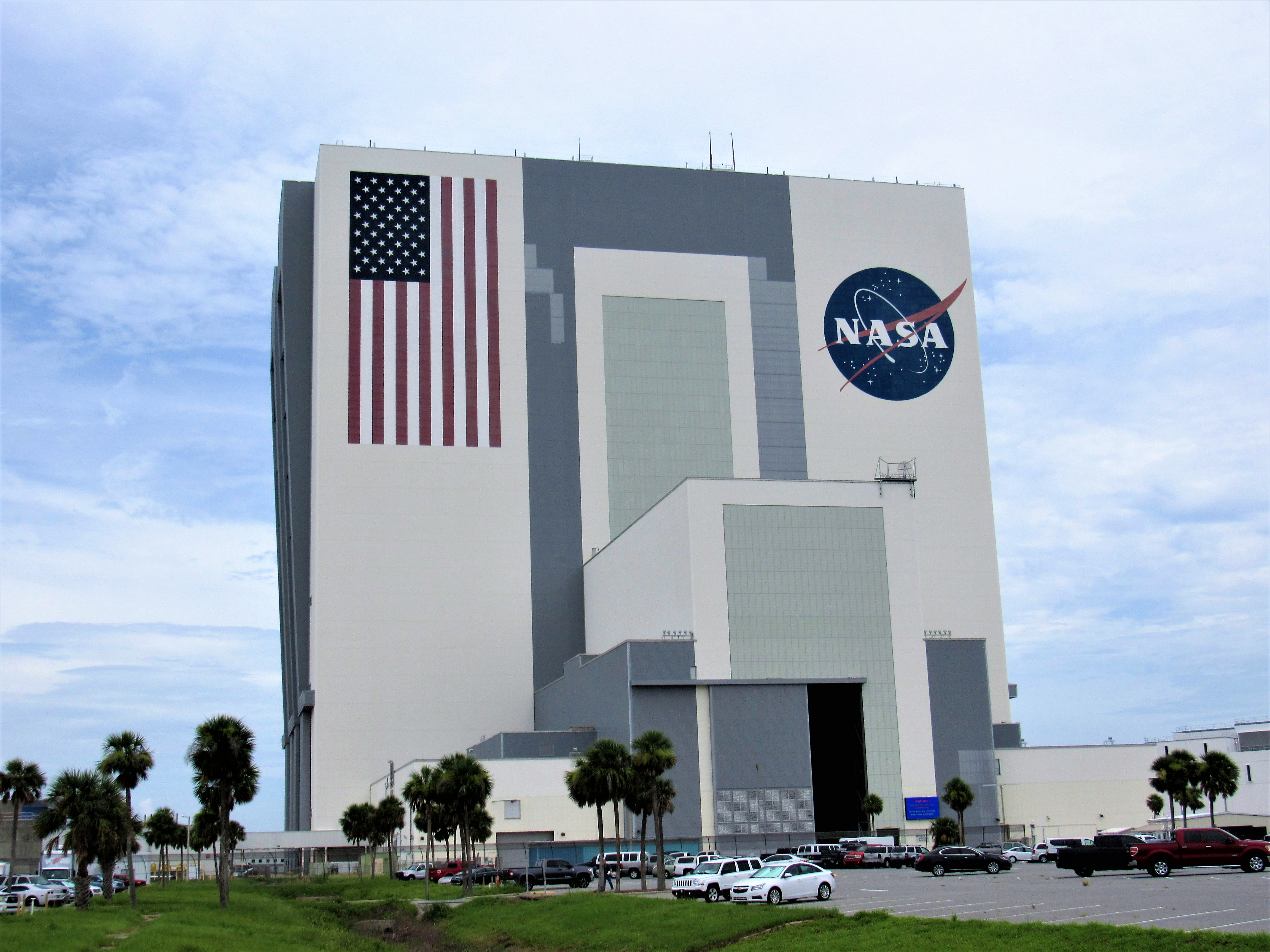 The Vehicle Assembly Building at the Kennedy Space Center, Merritt Island, Florida.